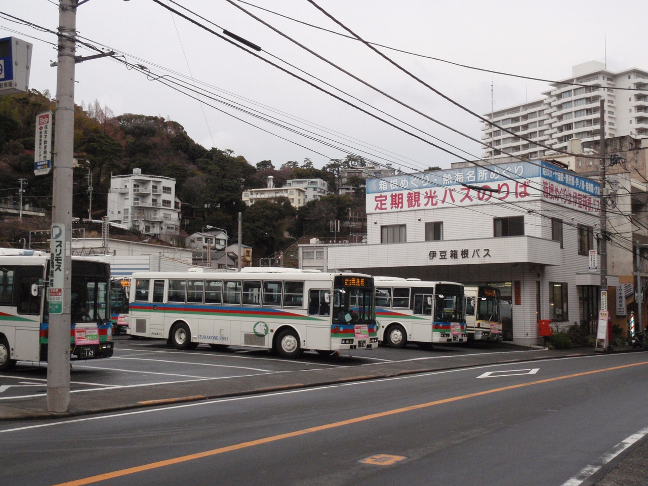 Izuhakone Bus Atami Depot